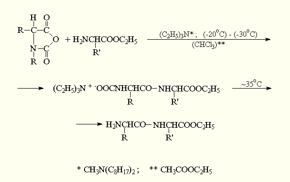 Peptide synthesis